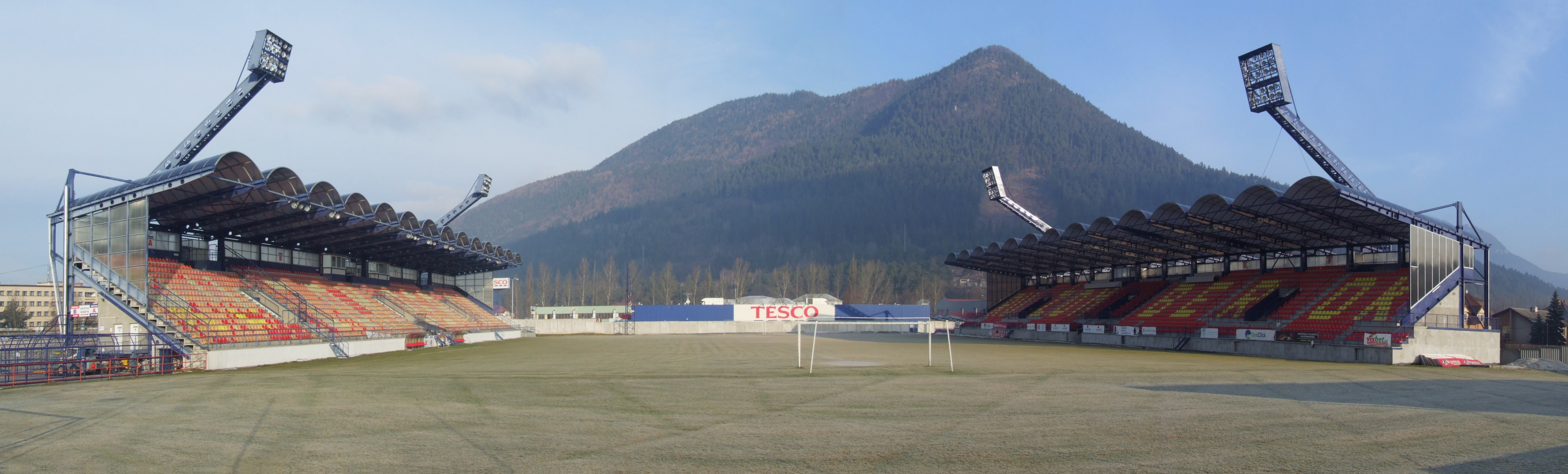 Stadium MFK Ružomberok, Slovakia